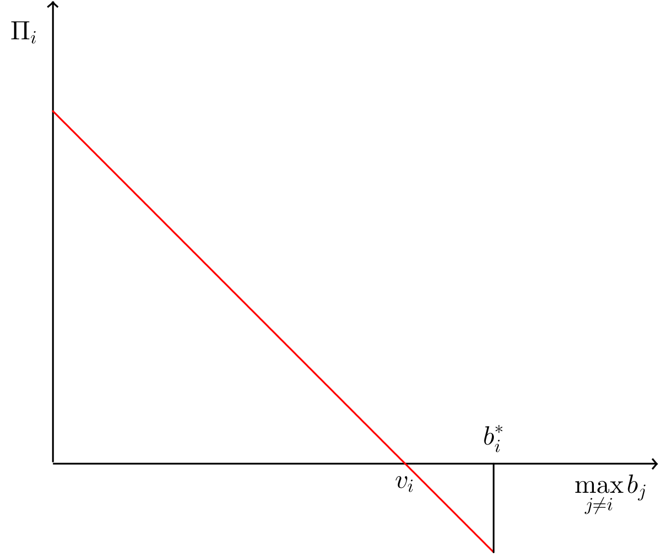 Second price auction 1 (too high bidding)